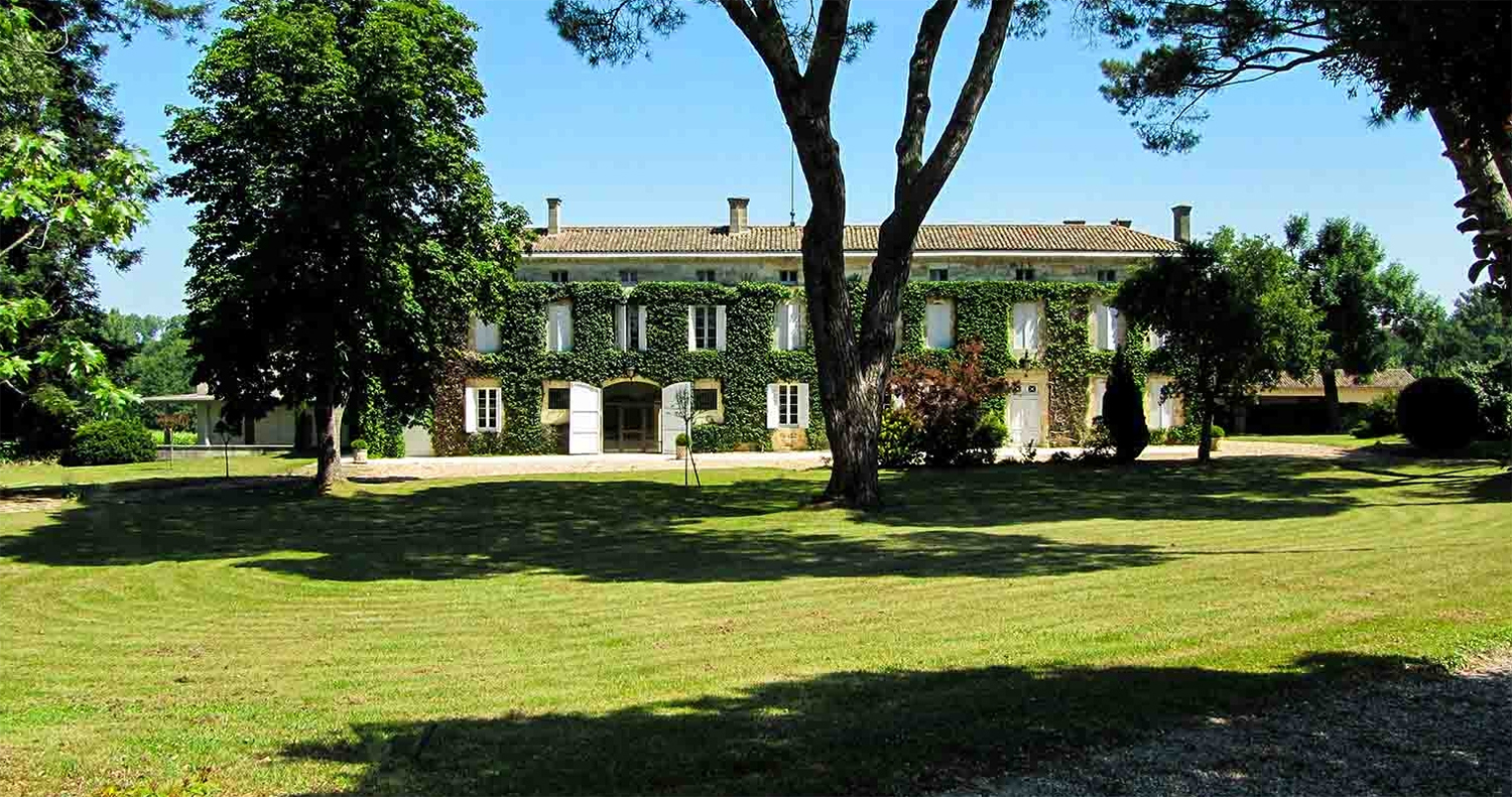 Chateau Rouget